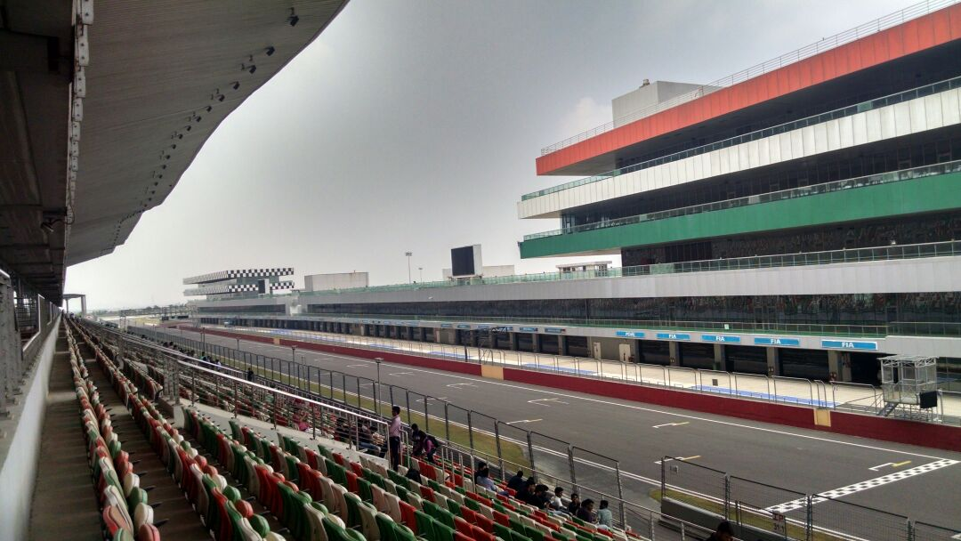 Buddh international Circuit, located in greater Noida, Utter Pradesh